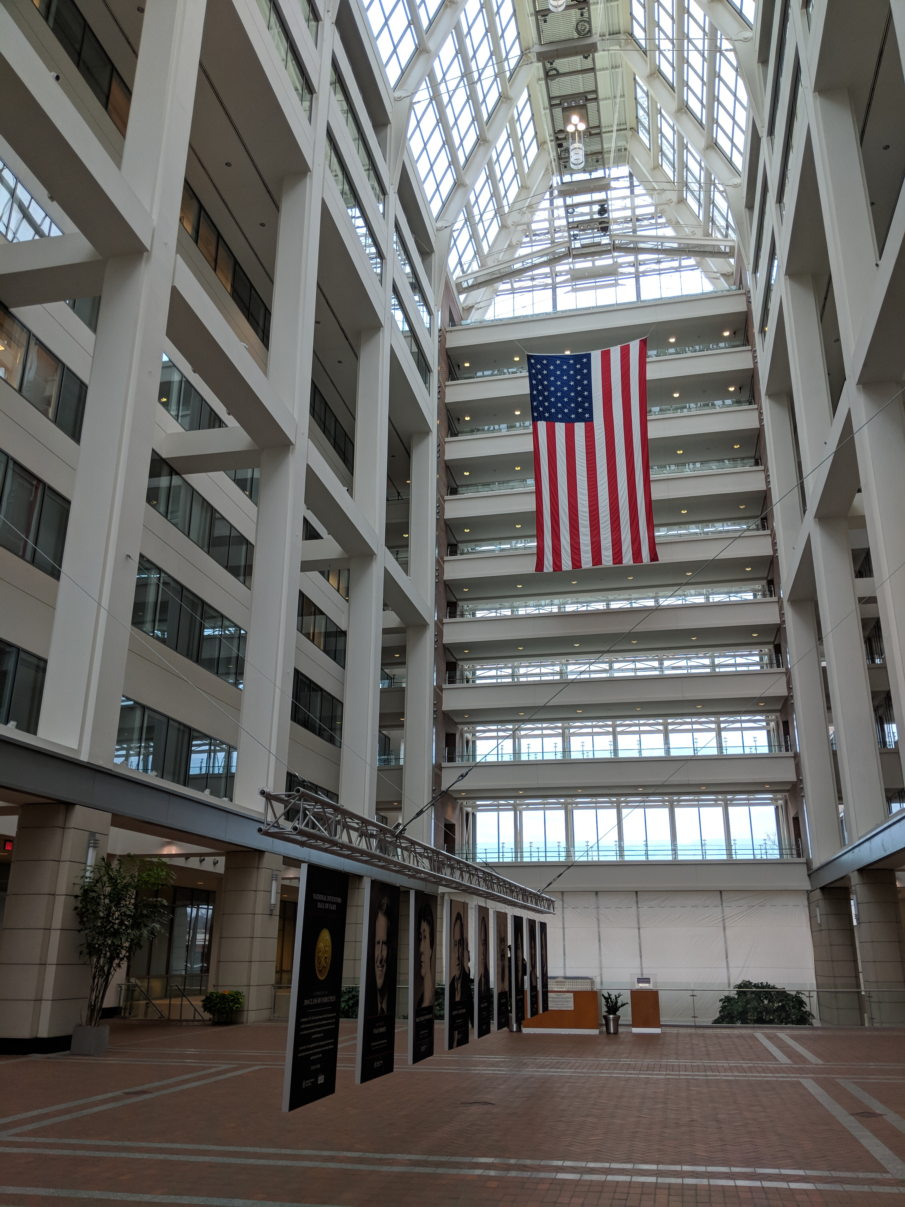 Interior of the US Patent and Trademark Madison Building in Alexandria, Virginia.